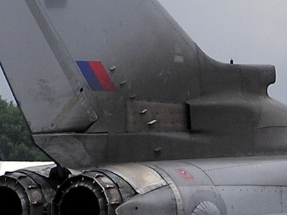 Vortex generators on the tail of a Panavia Tornado